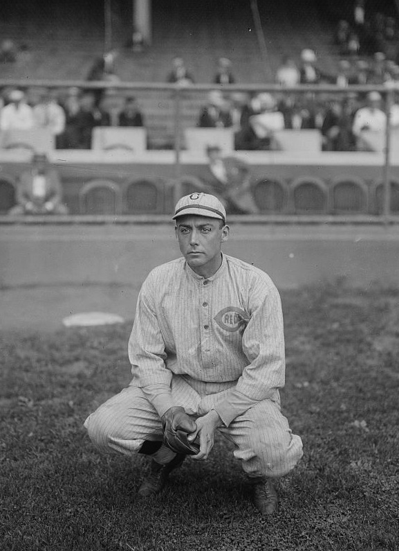 Bain News Service,, publisher. [Edd Roush, Cincinnati NL (baseball)] 1916. 1 negative : glass ; 5 x 7 in. or smaller. Cropped Notes: Original data provided by the Bain News Service on the negatives or caption cards: Roush, Cinci, 1916. Corrected title based on research by the Pictorial History Committee, Society for American Baseball Research, 2006. Forms part of: George Grantham Bain Collection (Library of Congress). Format: Glass negatives. Repository: Library of Congress, Prints and Photographs Division, Washington, D.C. 20540 USA, General information about the Bain Collection is available at Higher resolution image is available (Persistent URL): Call Number: LC-B2- 3937-5